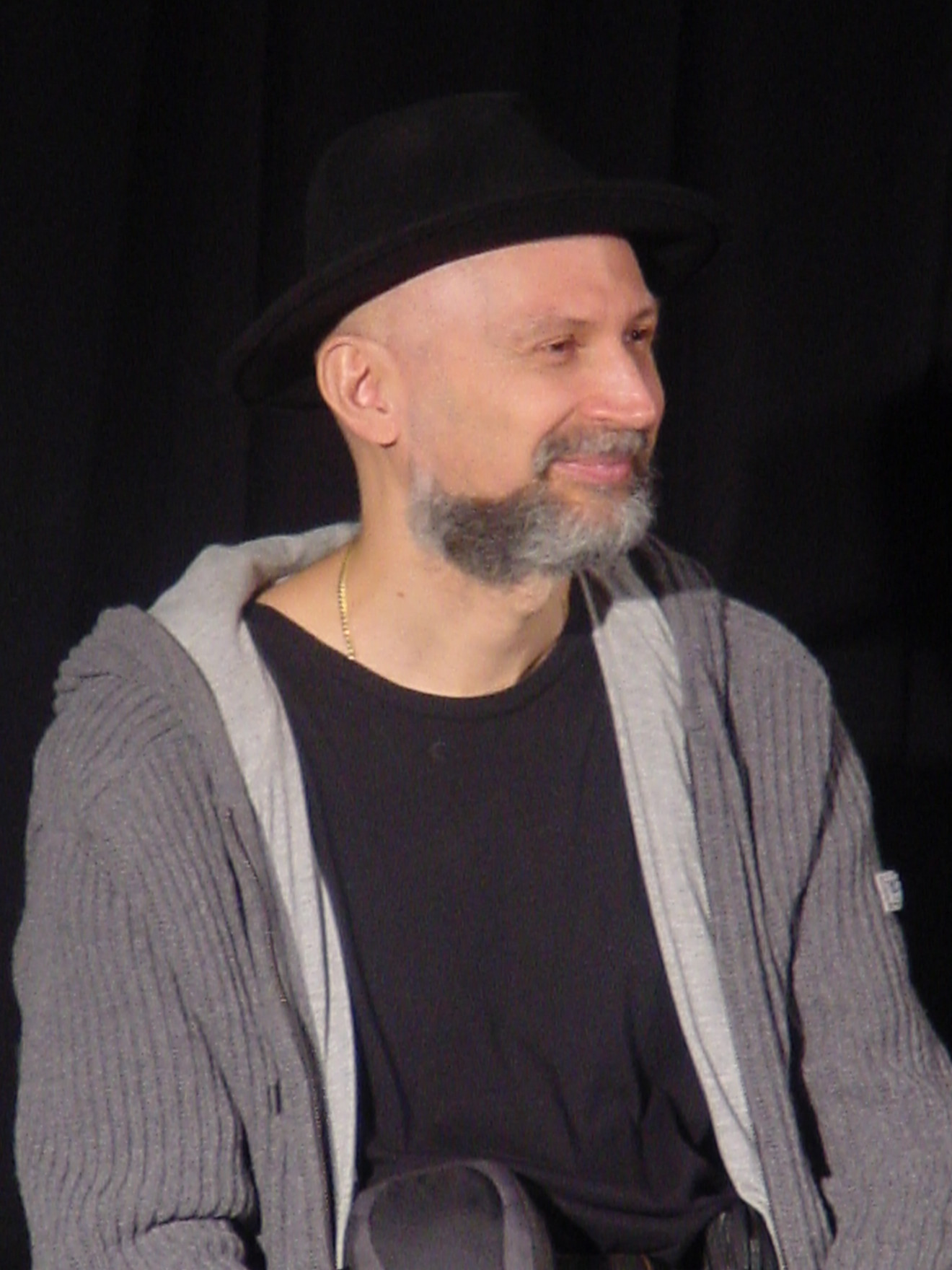 Serbian-Romanian film director Sinişa Dragin at the Tokyo International Film Festival 2010